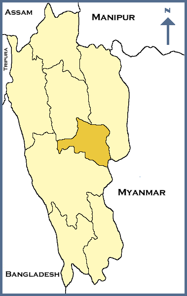 A locator map of Serchhip district, Mizoram